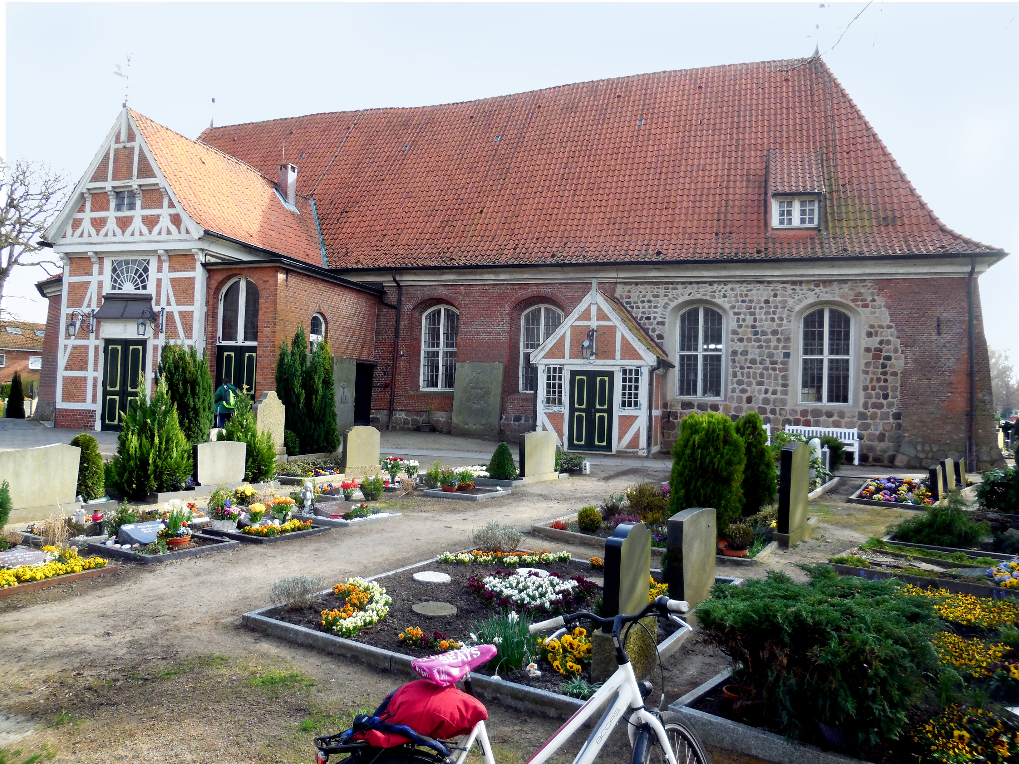 Church St.Severini of Kirchwerder, Hamburg